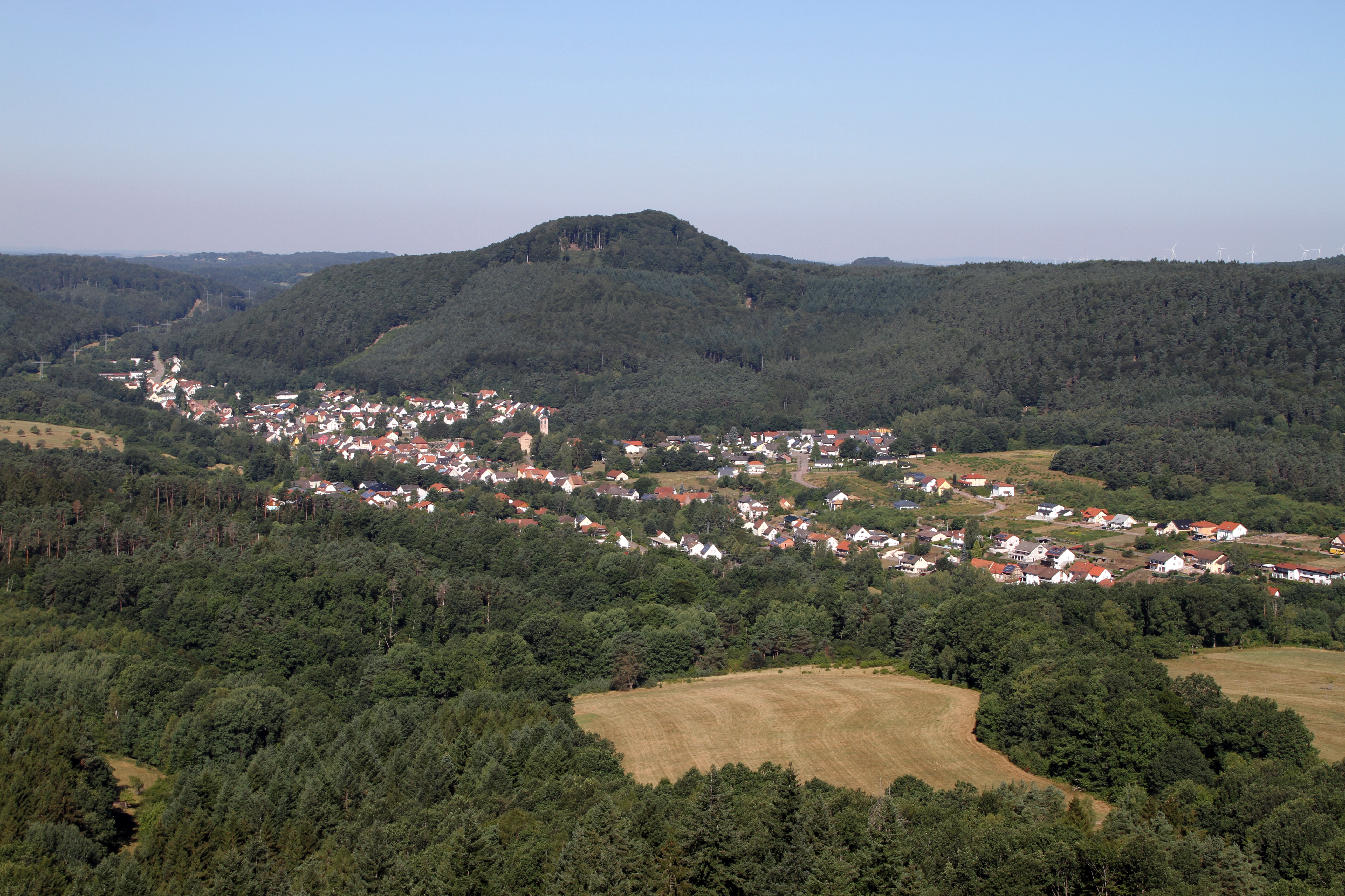 Gräfenstein Castle nearby Merzalben/Germany.